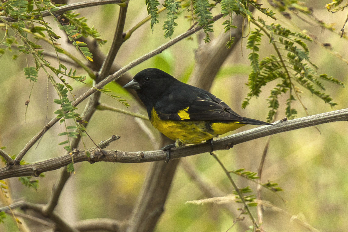 Yellow-bellied Siskin - Panama_H8O1647